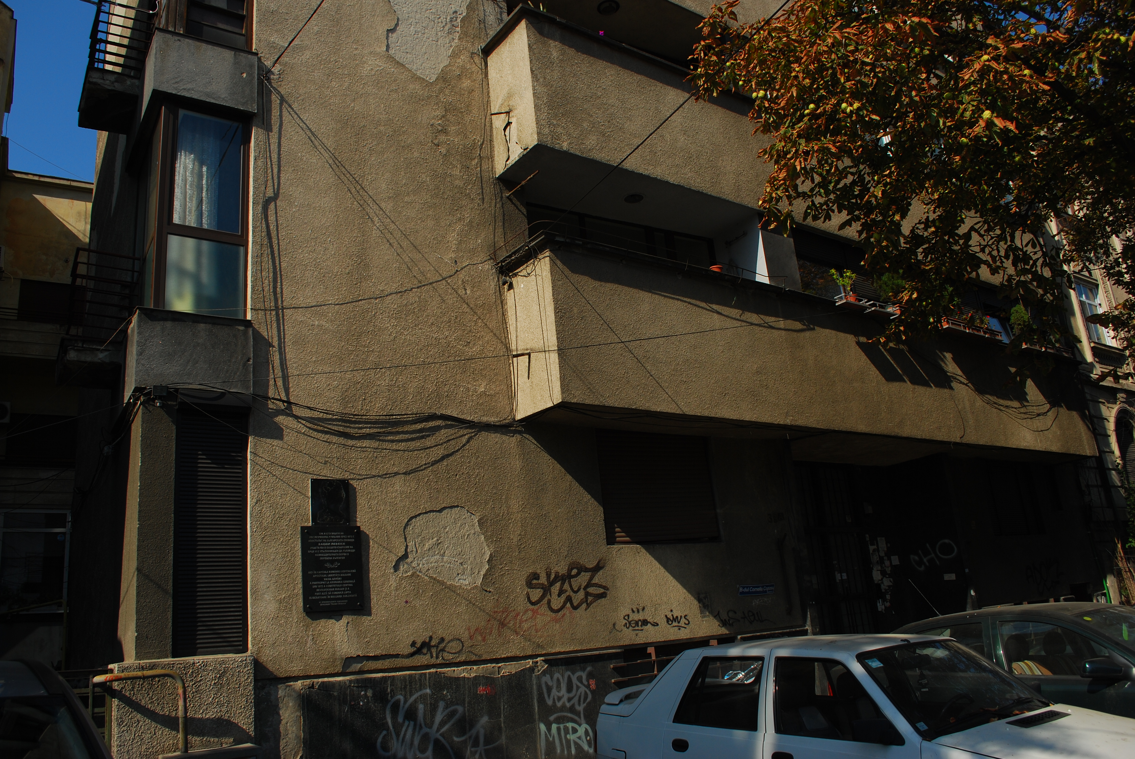 Historic building in Bucharest, Romania, on Corneliu Coposu boulevard 39ARomână: Clădire istorică din Bucureşti, România: Bd. Corneliu Coposu 39A